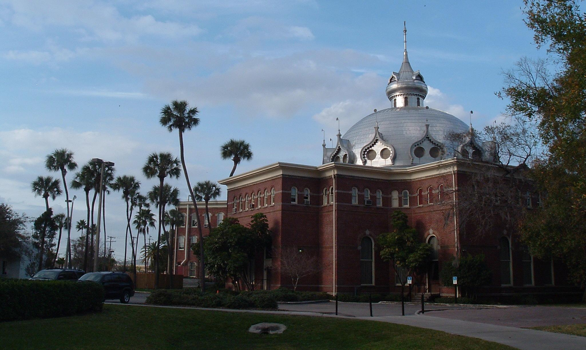 A view of the Fletcher Lounge's dome on Plant Hall's north side